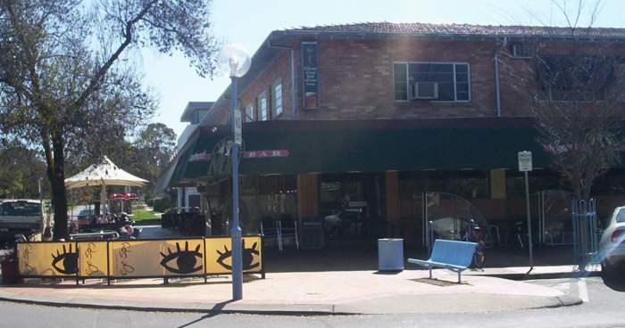 O'connor shops with the all bar nun in the foreground. I took the photo